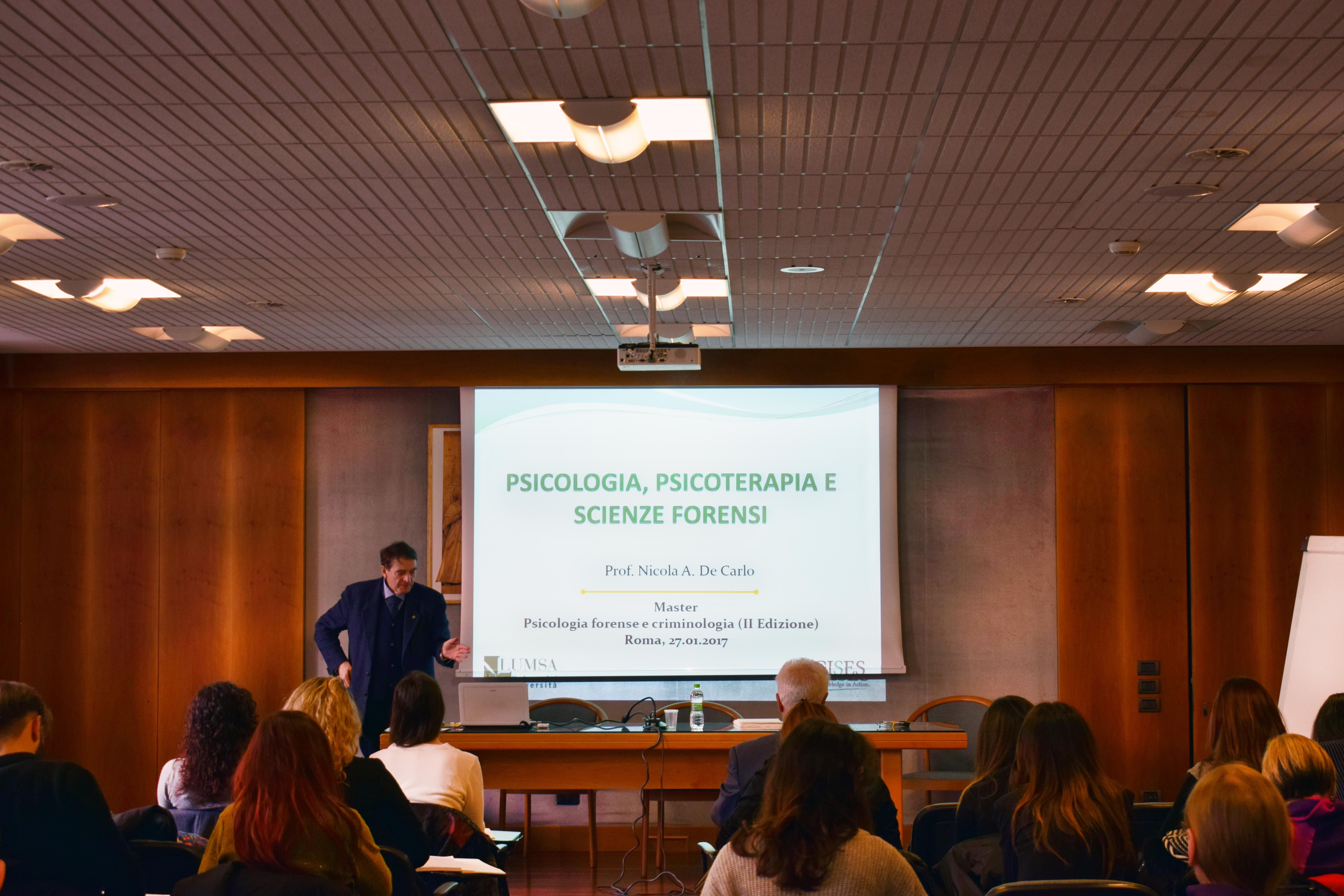 Nicola Alberto De Carlo teach at University